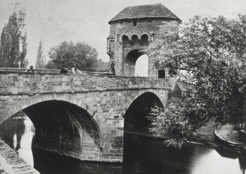 Monnow Bridge c. 1866 from South West across the river. Monmouth Museum Identity Number: M184.9A